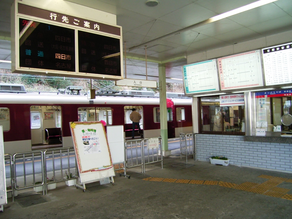 Ticket gate at Yunoyama-Onsen Station, Mie, Japan